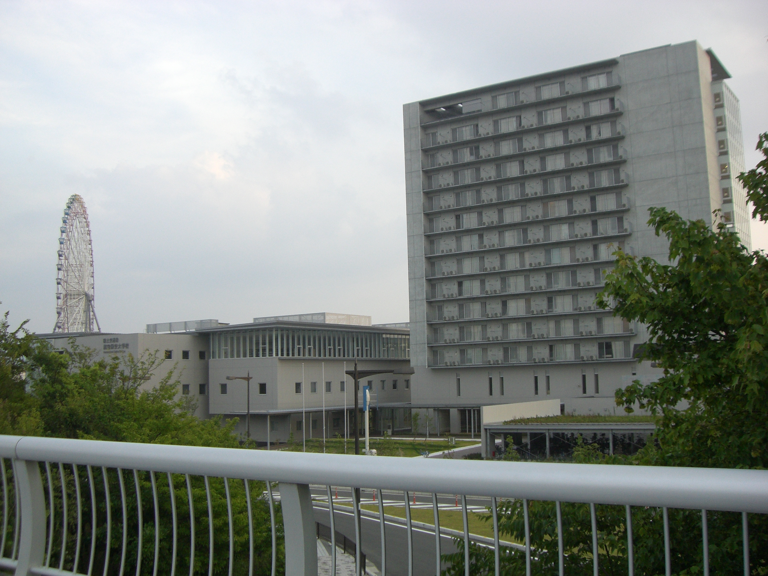 Aeronautical Safety College from Rinku-Koen(Park)